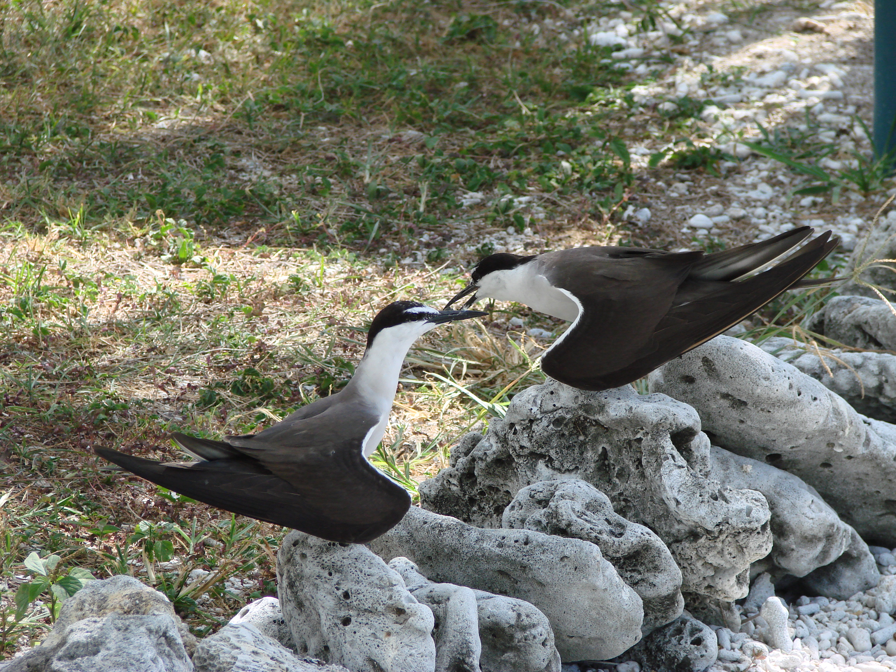 Bridled Terns (Onychoprion anaethetus) in a courtship display. Taken at Lady Elliot Island Eco-Resort (Great Barrier Reef, Australia).